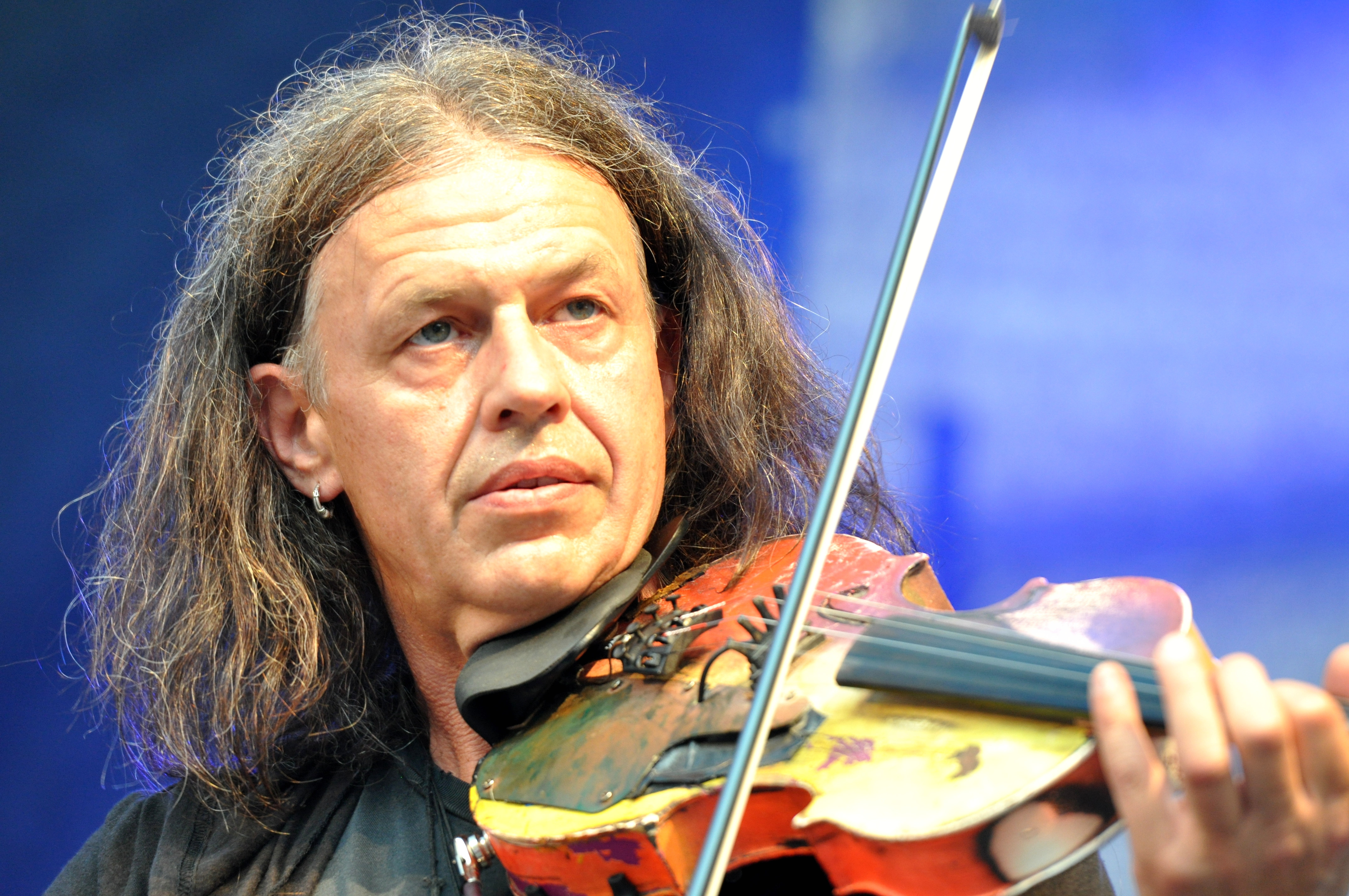 Wendrsonn (DEU) appearance at the 2016 blacksheep festival at Bonfeld castle, Bad Rappenau, Baden-Wuerttemberg, Germany Festivalsommer This photo was created with the support of donations to Wikimedia Deutschland in the context of the CPB project "Festival Summer".